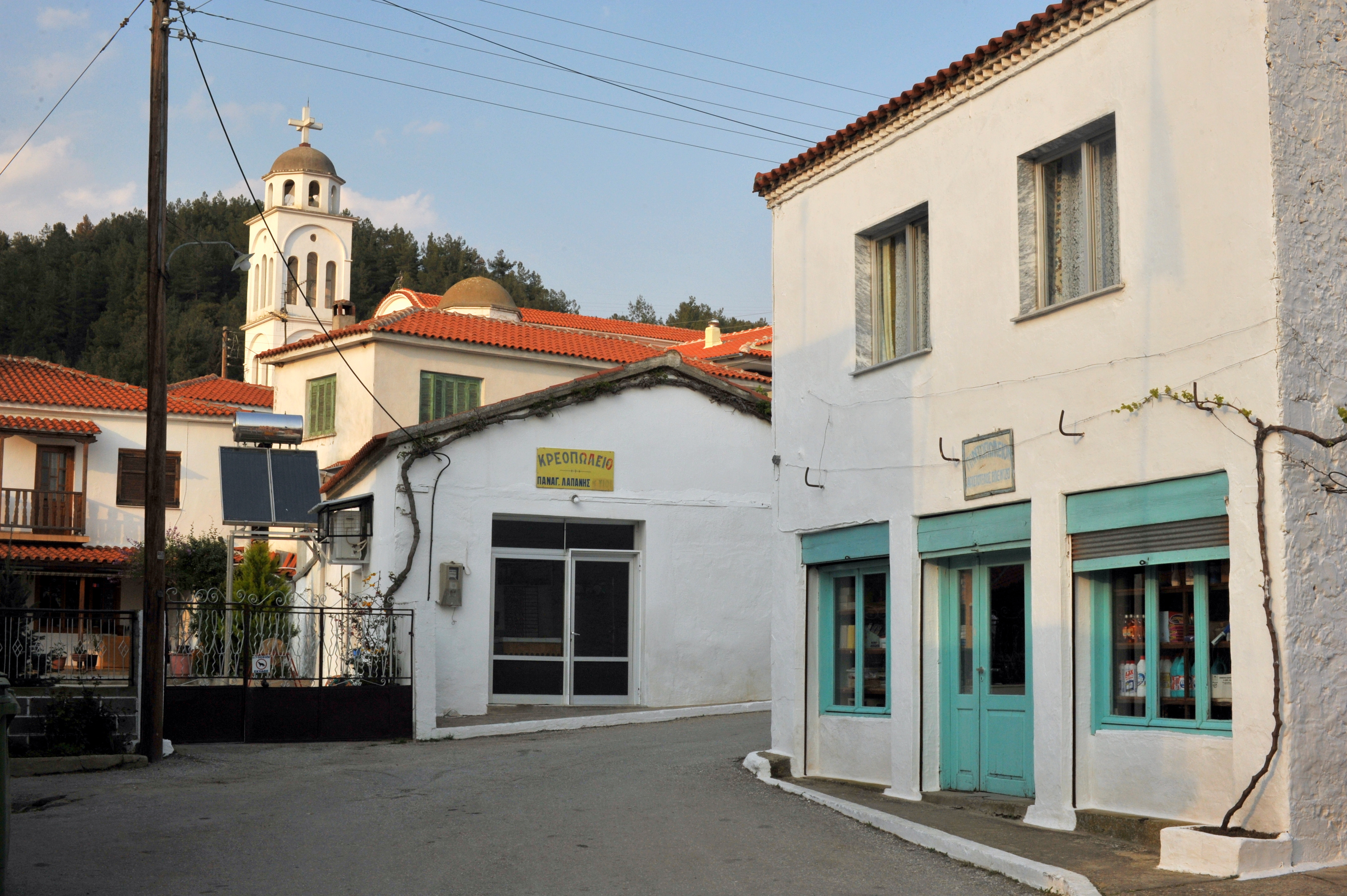 Gratini village, Rhodope, Thrace, Greece.